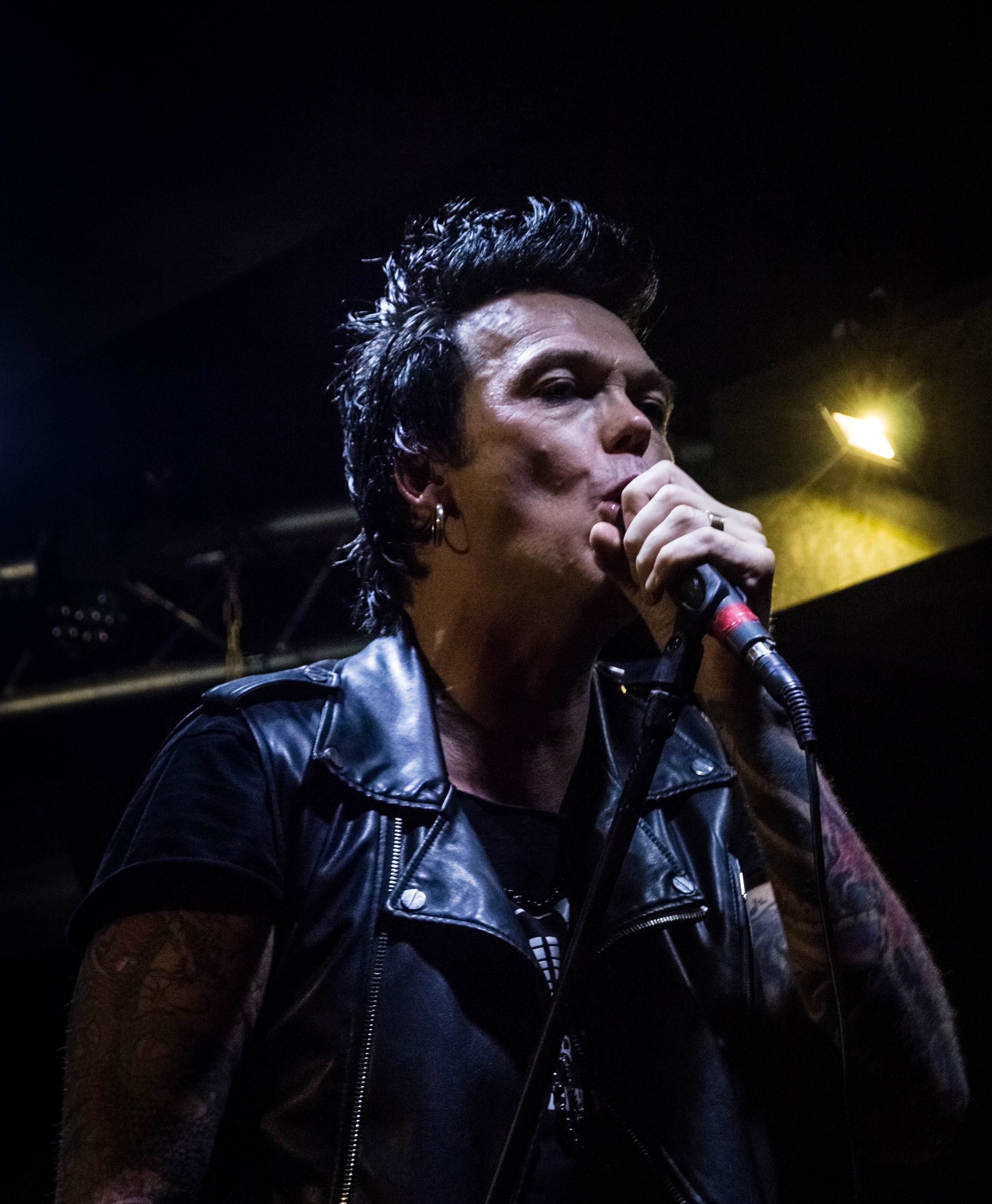 Jaded Heart live@ Helvete Oberhausen 2017